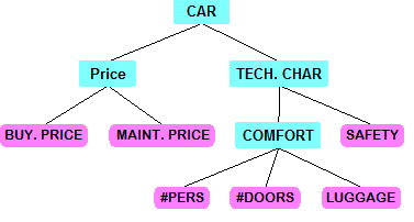 DEXi tree for car evaluation example